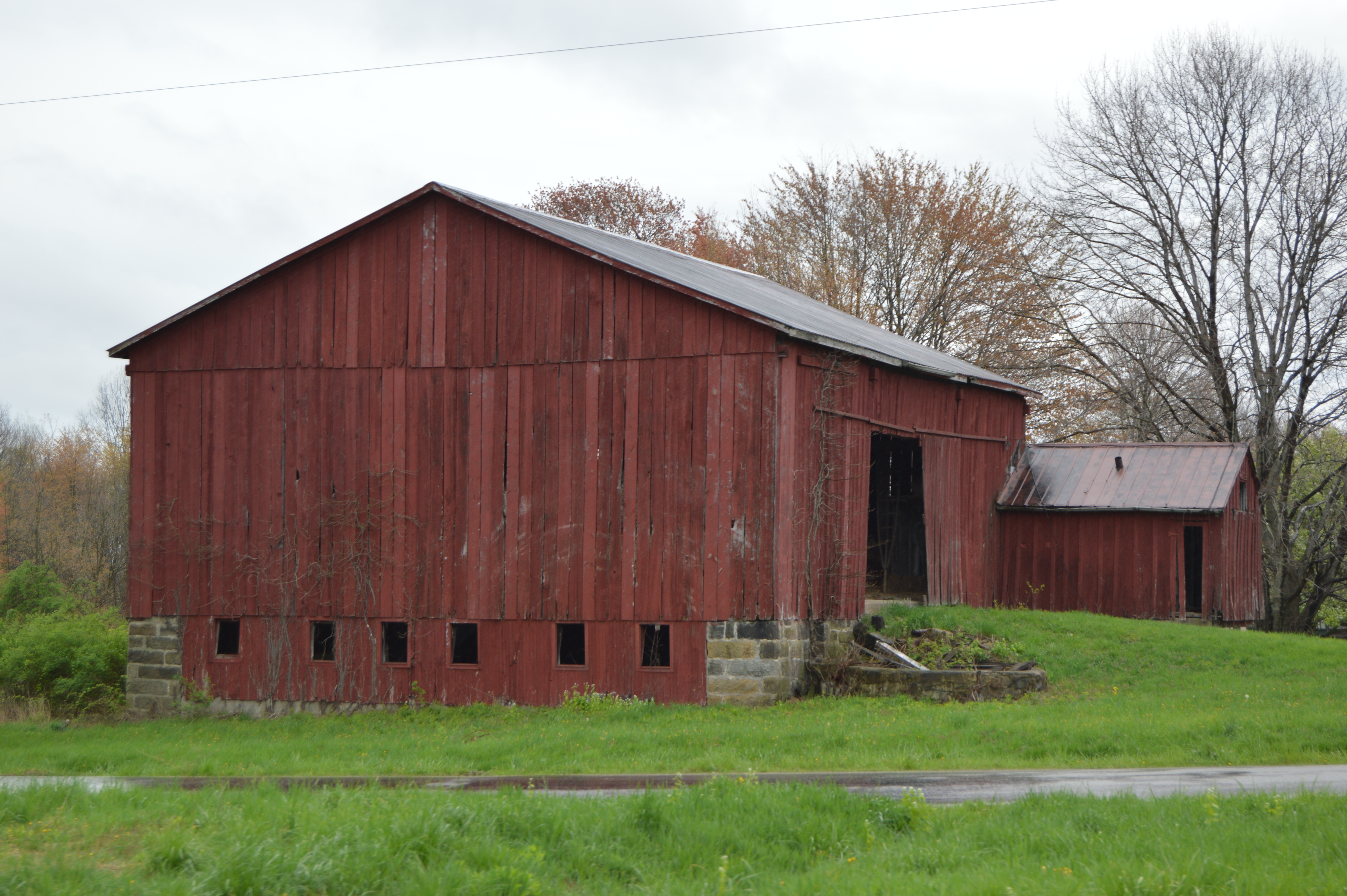 Western side and southern front of the barn located at the intersection of Vickerman and Stone Base Roads in East Lackawannock Township, Mercer County, Pennsylvania, United States.